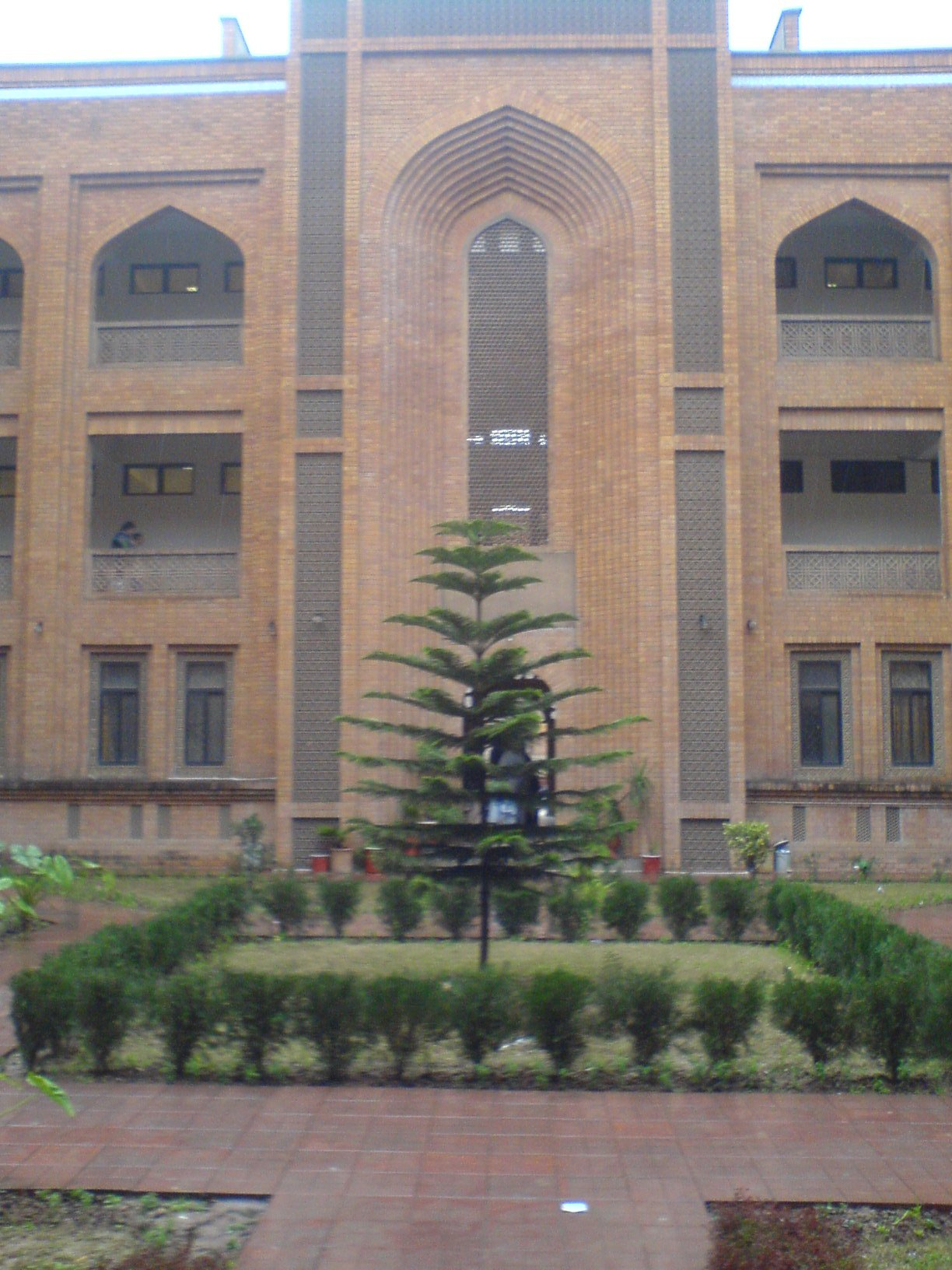 International Islamic University (IIUI) — in Islamabad, Pakistan.